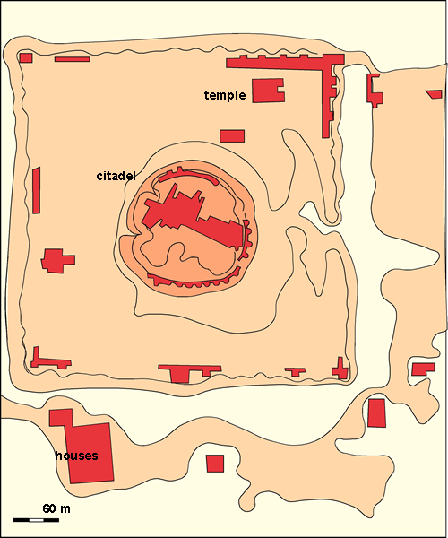 plan of Dilbarjin; redrawn from